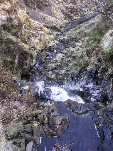 Looking down Dob's Linn from the Top